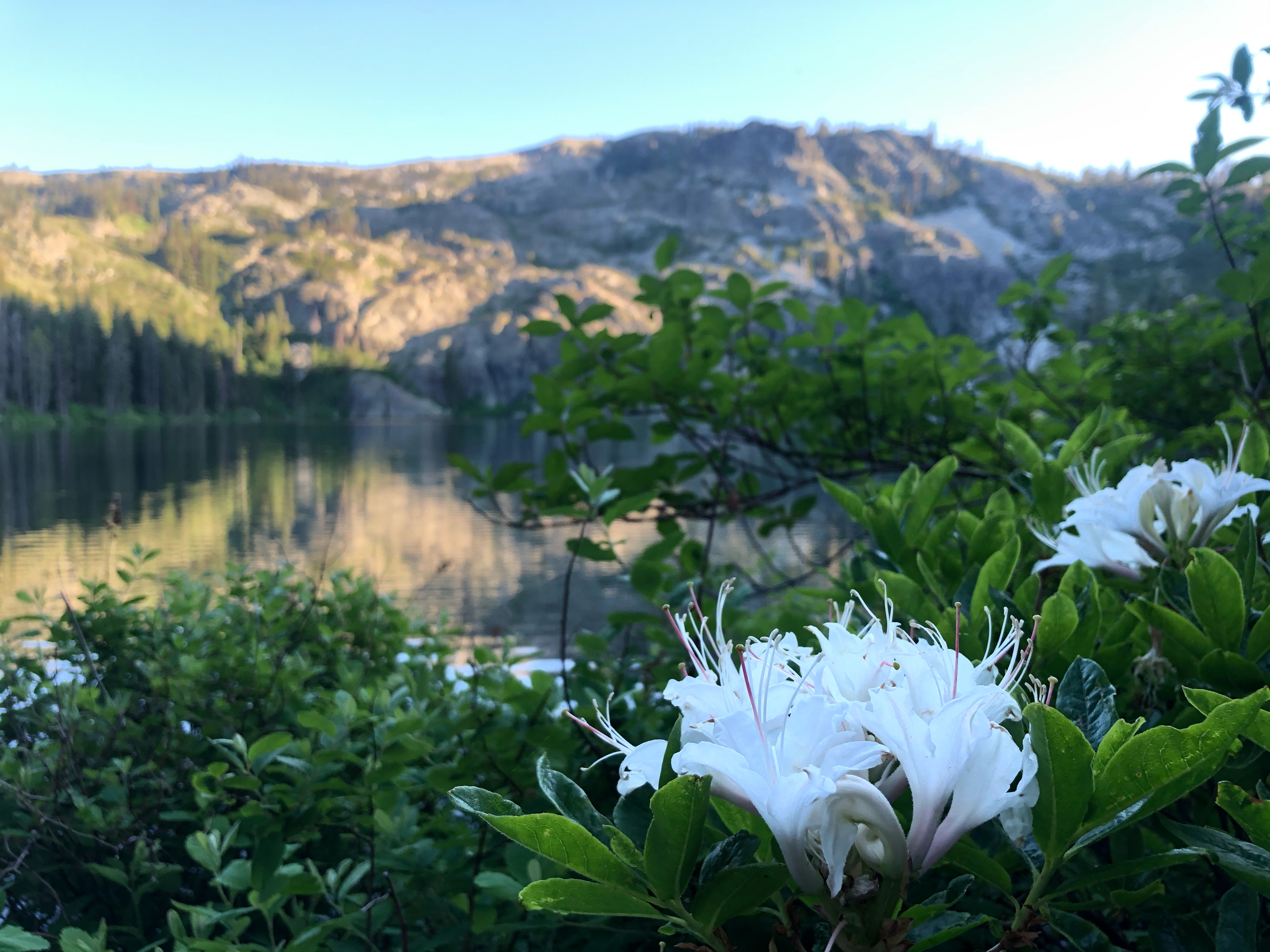 Image of western azalea Castle Lake CA. Taken June 2020 at Castle Lake